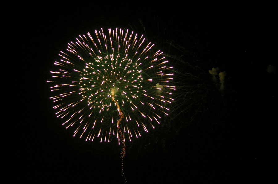 Fireworks in Ichikawa, Chiba, Japan, 2005